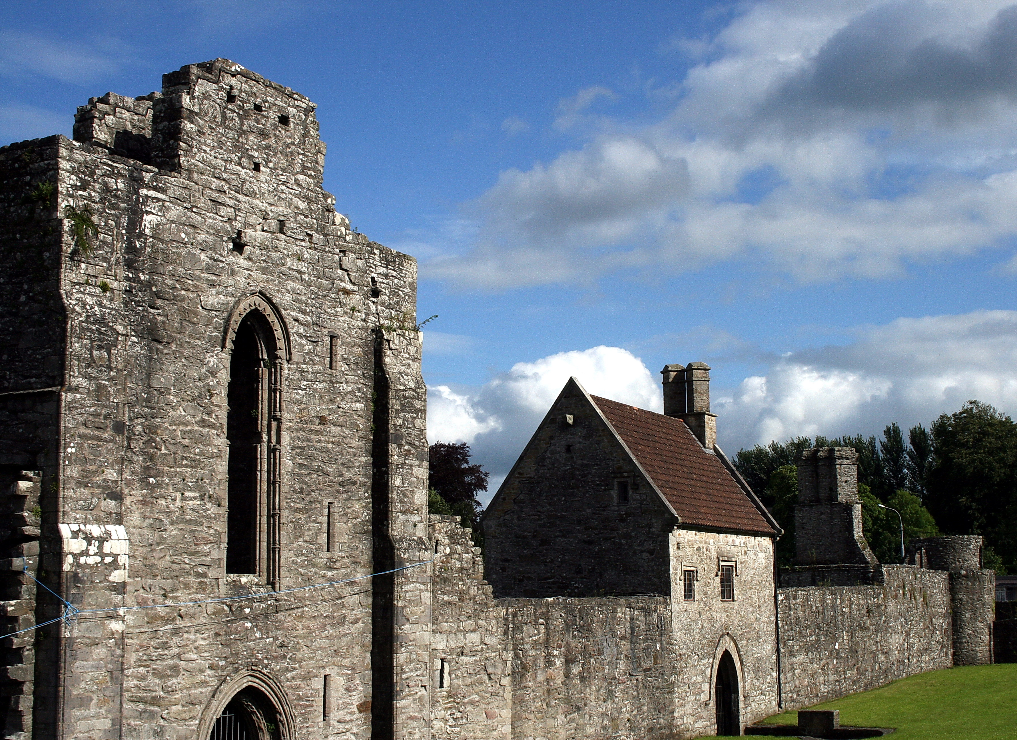 Boyle Abbey, Boyle, County Roscommon